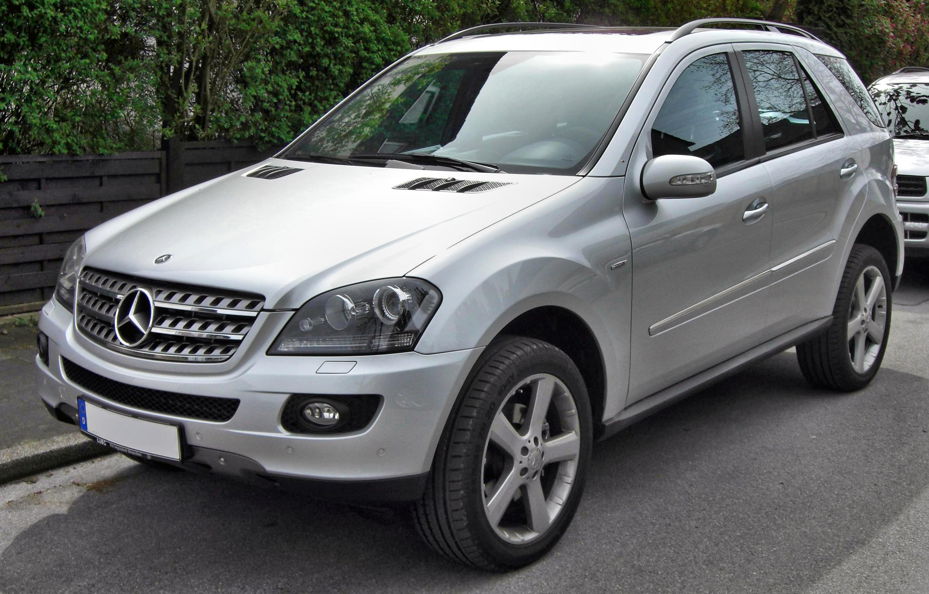 Mercedes ML 280CDI Edition 10